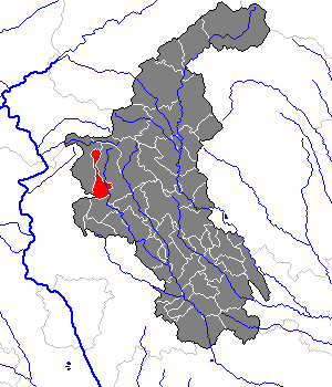 This map shows the area of the Gemeinde (municipality) Passail in the Bezirk (district) Weiz, Styria, Austria.